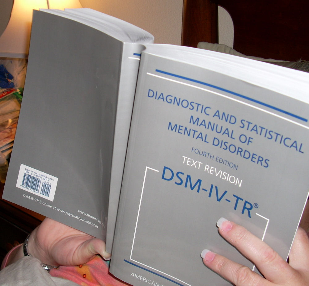 Pic of the DSM-IV